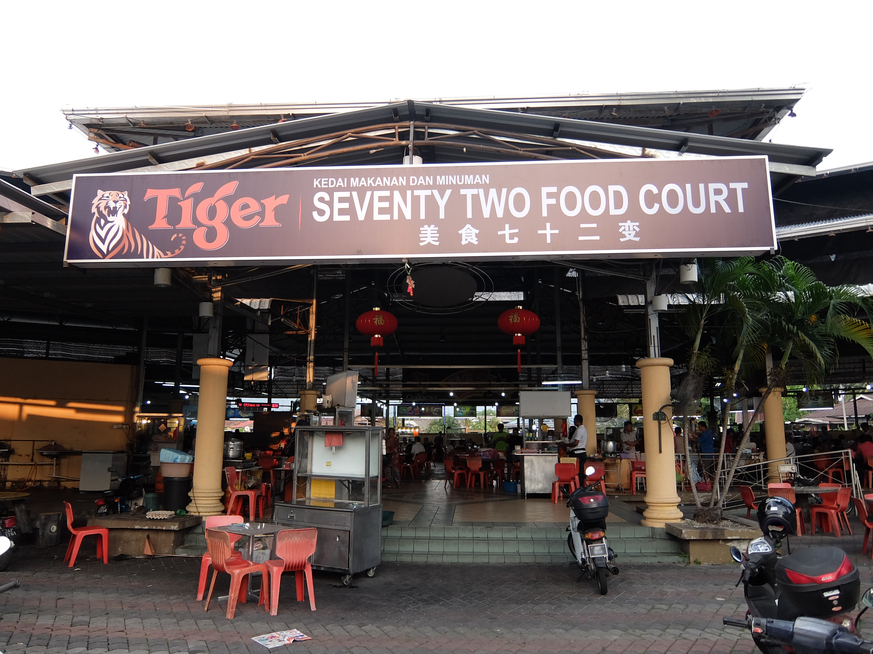 Seventy Two Food Court, Batu Pahat, Johor, MalaysiaBahasa Melayu: Medan Selera Seventy Two, Batu Pahat, Johor, Malaysia